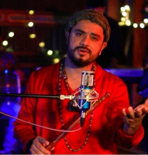 SYED_KABUL_BUKHARI_KASHMIR